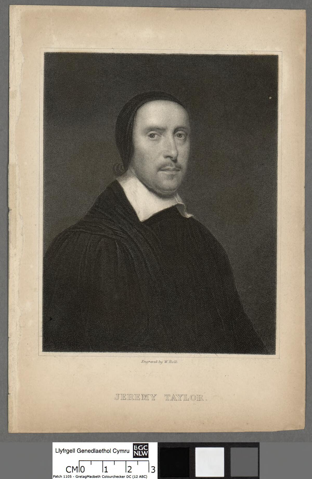 A portrait from the Welsh Portrait Collection at the National Library of Wales. Depicted person: Jeremy Taylor – English clergyman